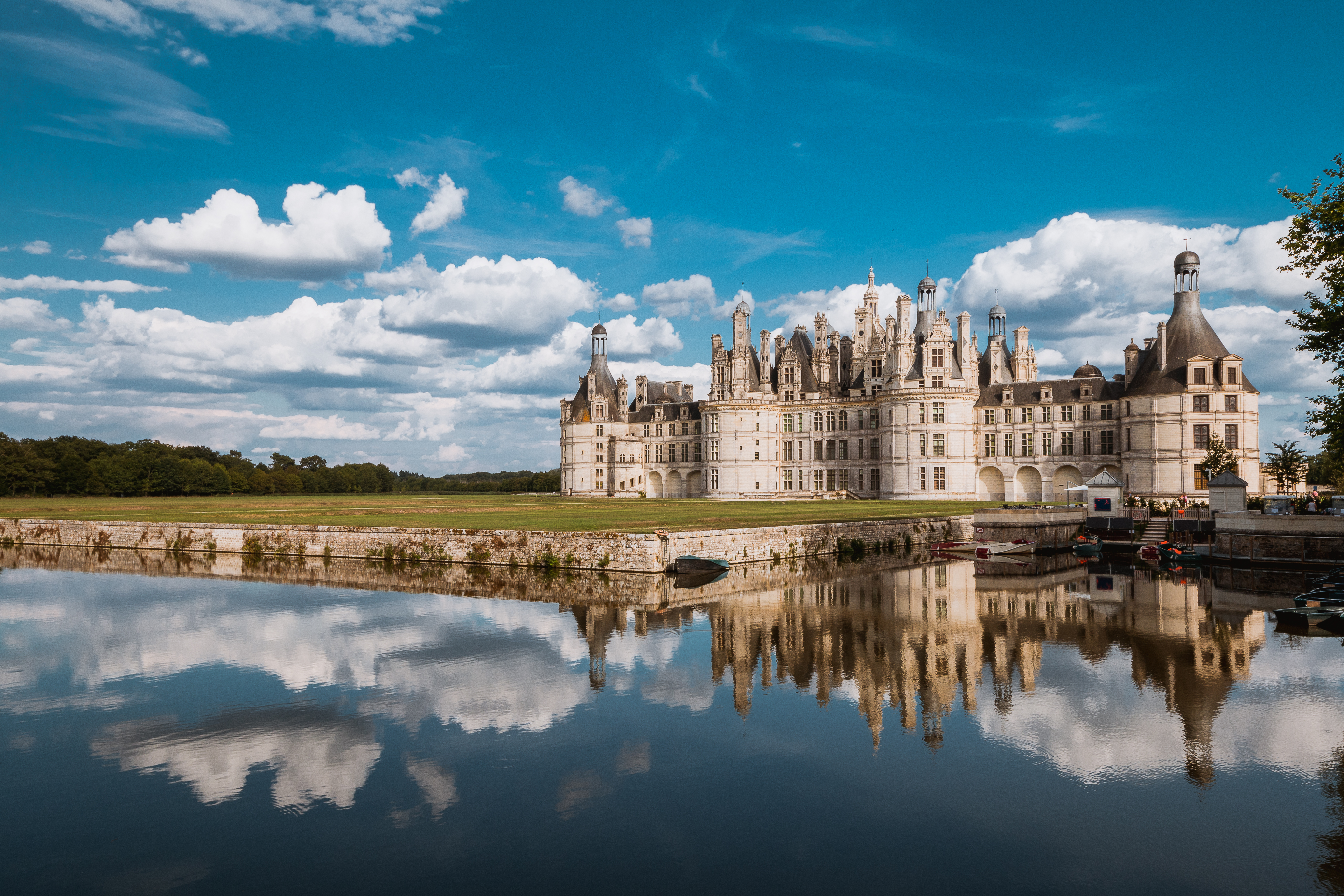 Château de Chambord, Loir-et-Cher departament, France.